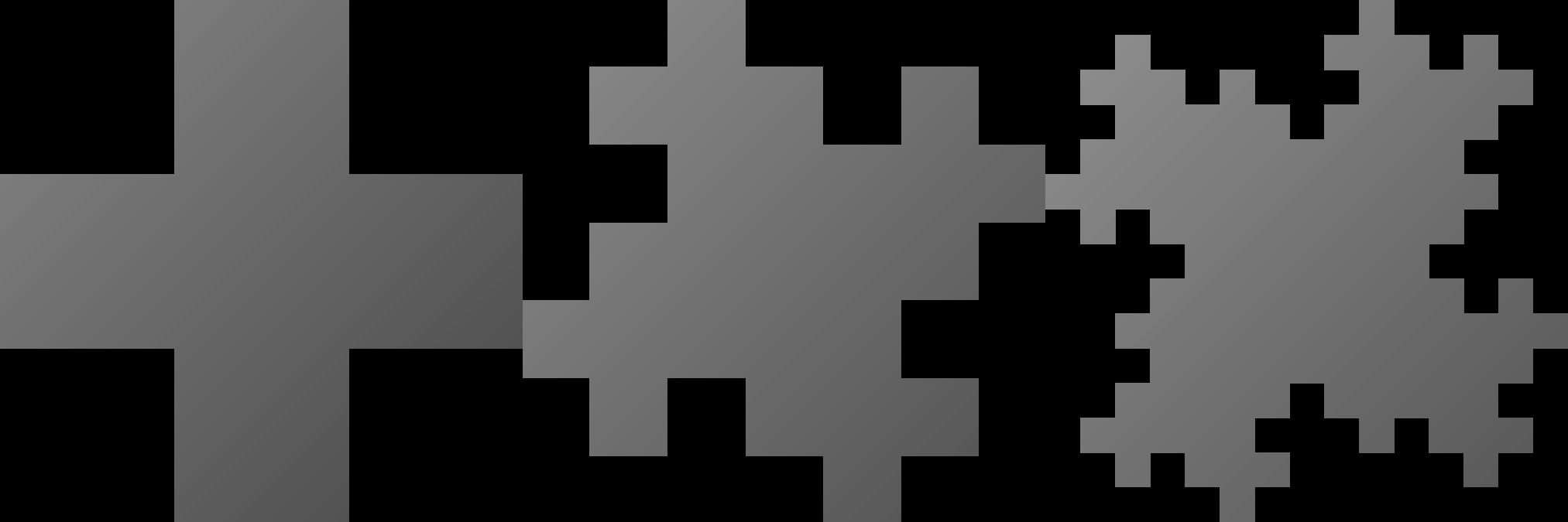 Created with open source free software by author, available through